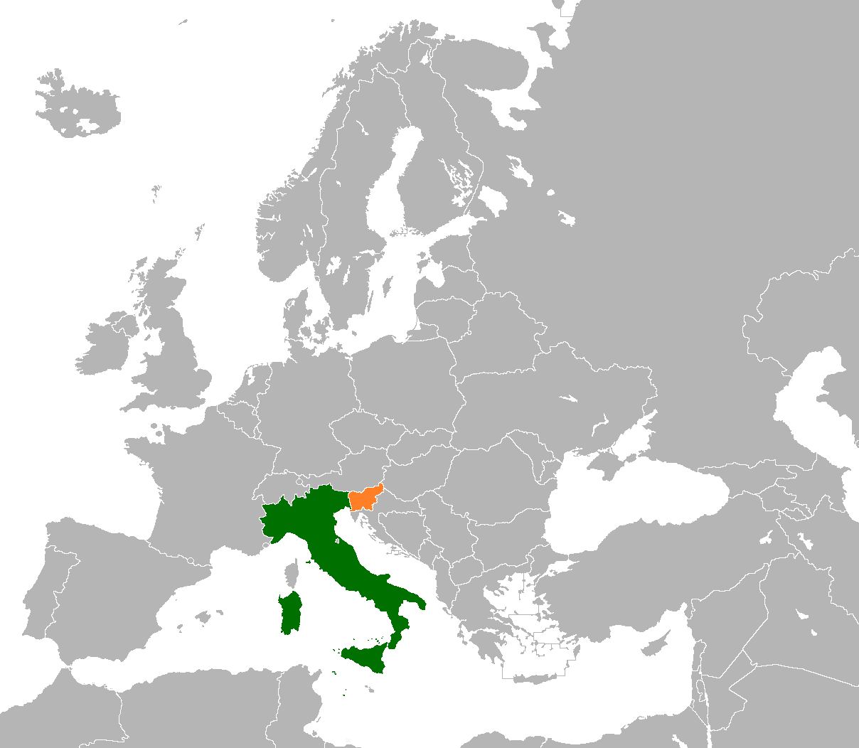 Map showing locations of both Italy and Slovenia